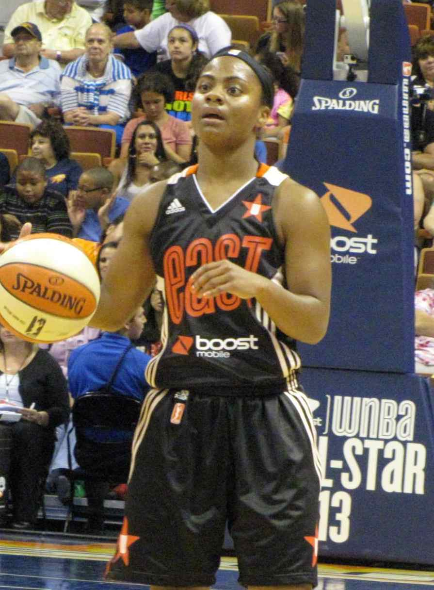 Ivory Latta at 2013 WNBA All-Star game at Mohegan Sun 27 July 2013